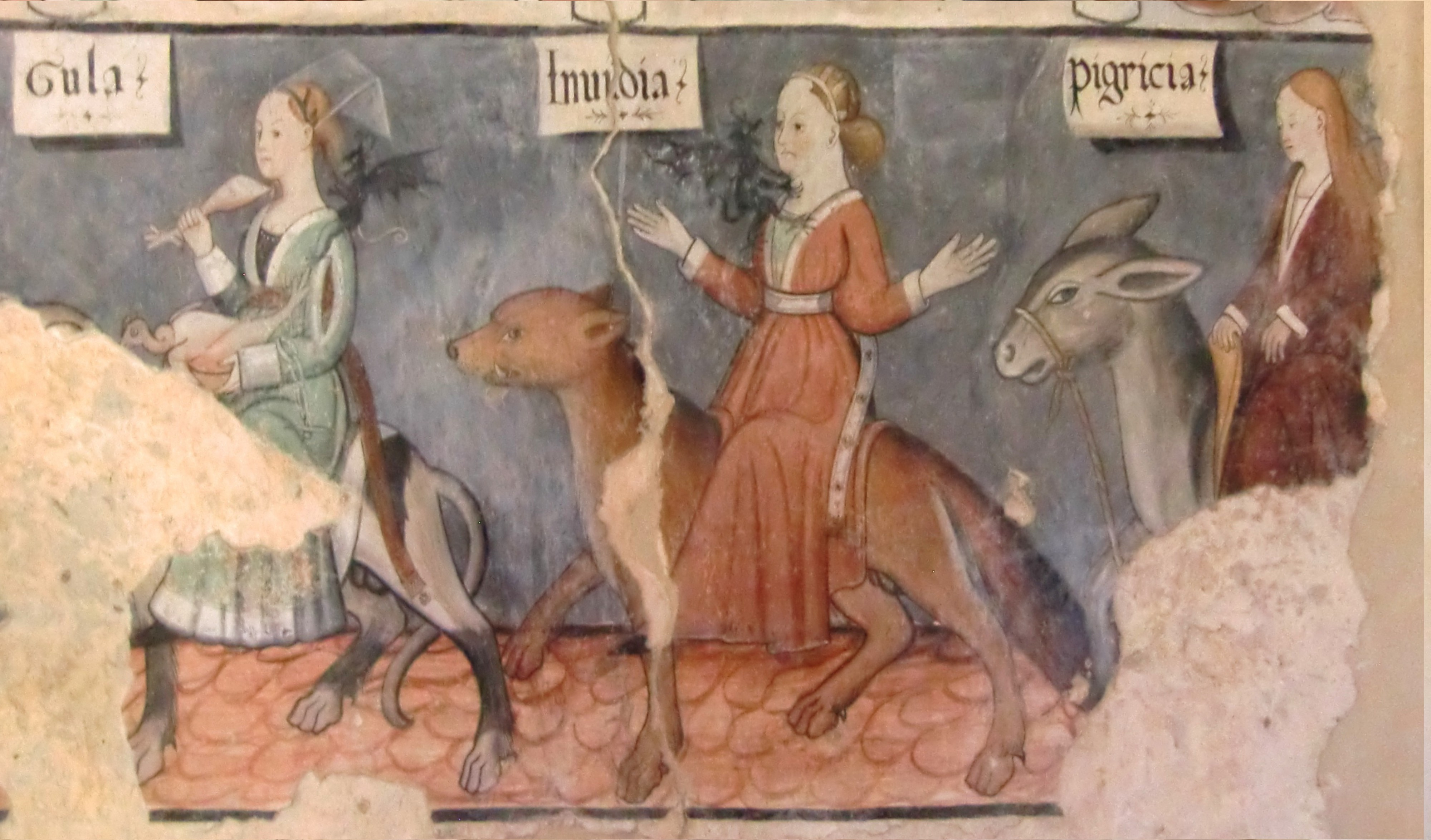 Cavalcade of Vices, fresco, Xv century, San Ferreolo church, Grosso (TO)